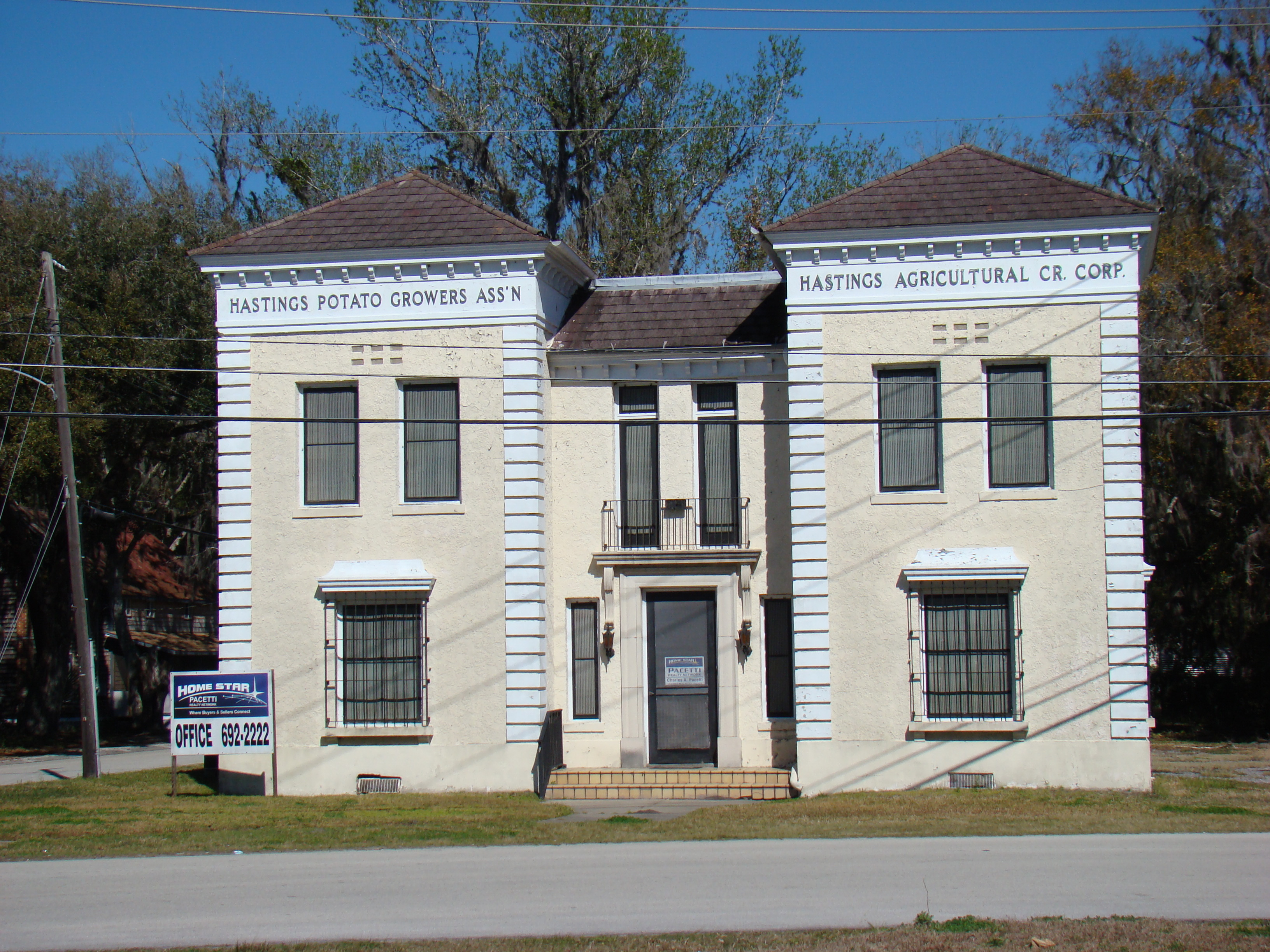 Potato Growers Association building at 101 East Ashland Avenue, Hastings Florida. Hastings Florida is known as the Potato Capital of Florida. It is now home to Recycled Publications, a used book store. The interior contains all original wood and furnishings from the 1920's.